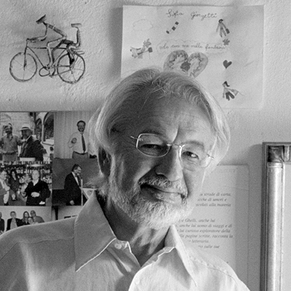 Giuliano Ghelli in his studio in San Pancrazio, Tuscany, photographed in 2005